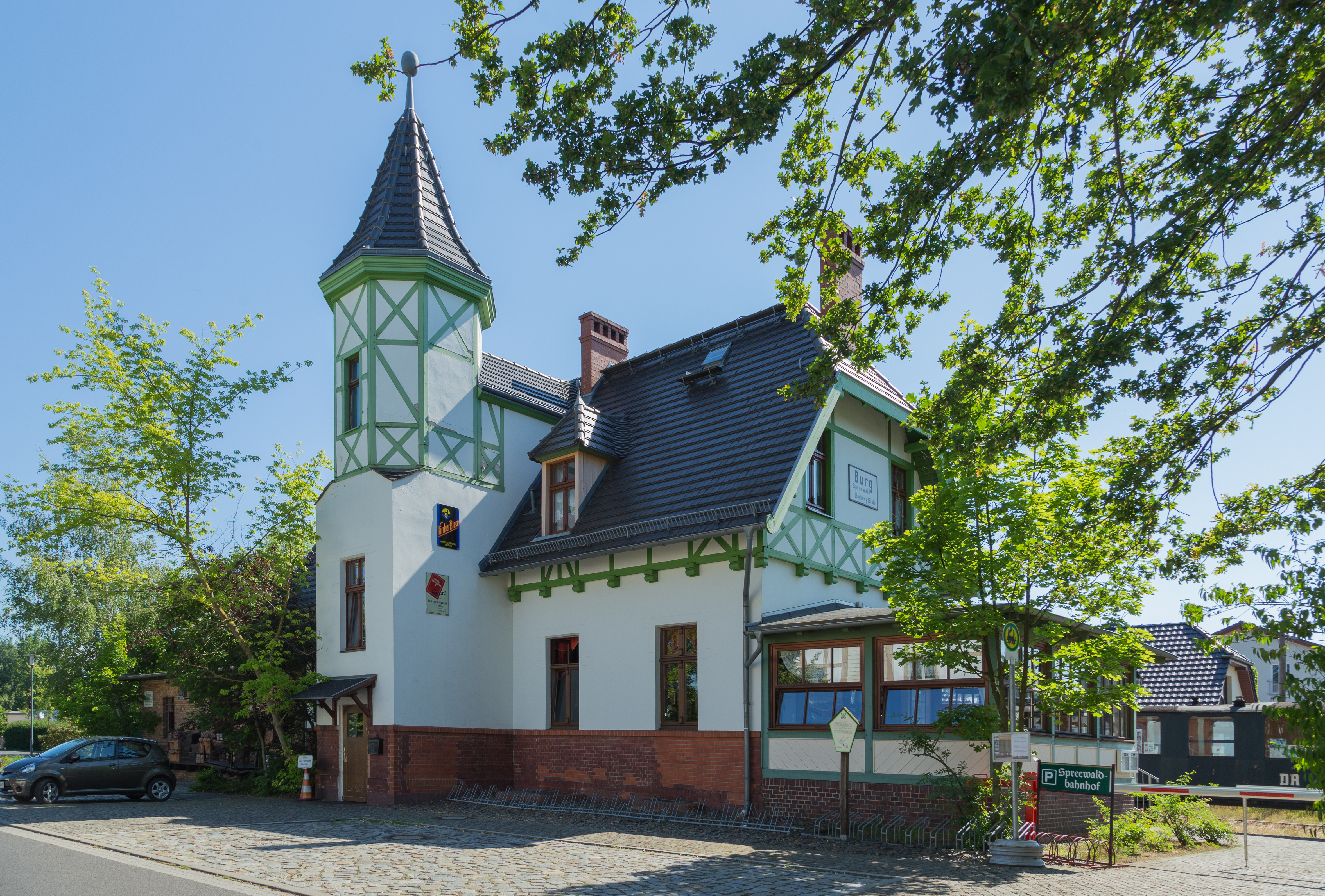 Former Burg Railway Station (Spreewaldbahnhof Burg) in Burg, Landkreis Spree-Neiße, Brandenburg, Germany.